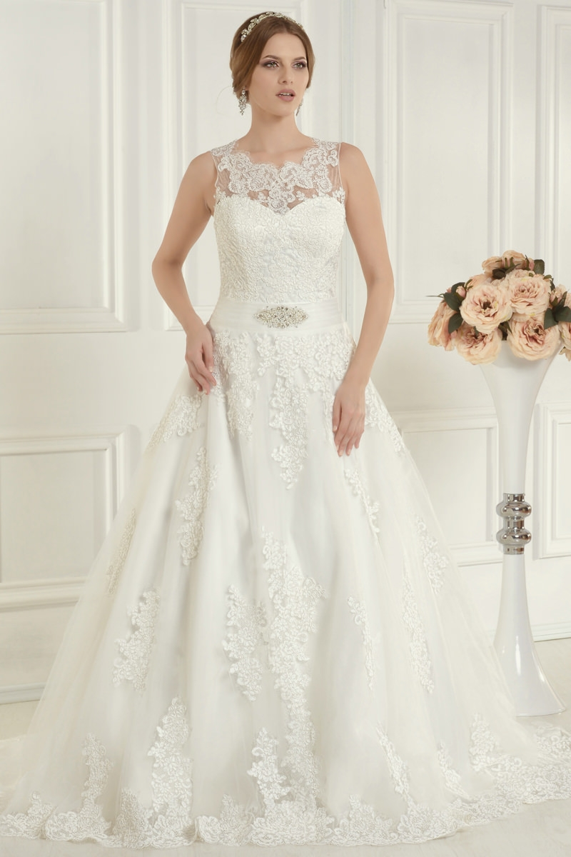 A-line Wedding Dresses